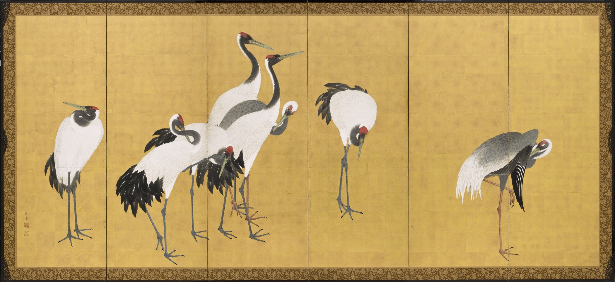 Japan, 1772, An'ei period (1772-1780) Paintings; screens Pair of six-panel screens; ink, color, and gold leaf on paper a-b) Mount: 67 1/4 x 137 3/4 x 3/4 in. (170.82 x 349.89 x 1.91 cm) each Gift of Camilla Chandler Frost in honor of Robert T. Singer (M.2011.106a-b) Japanese Art Currently on public view: Pavilion for Japanese Art, floor 3